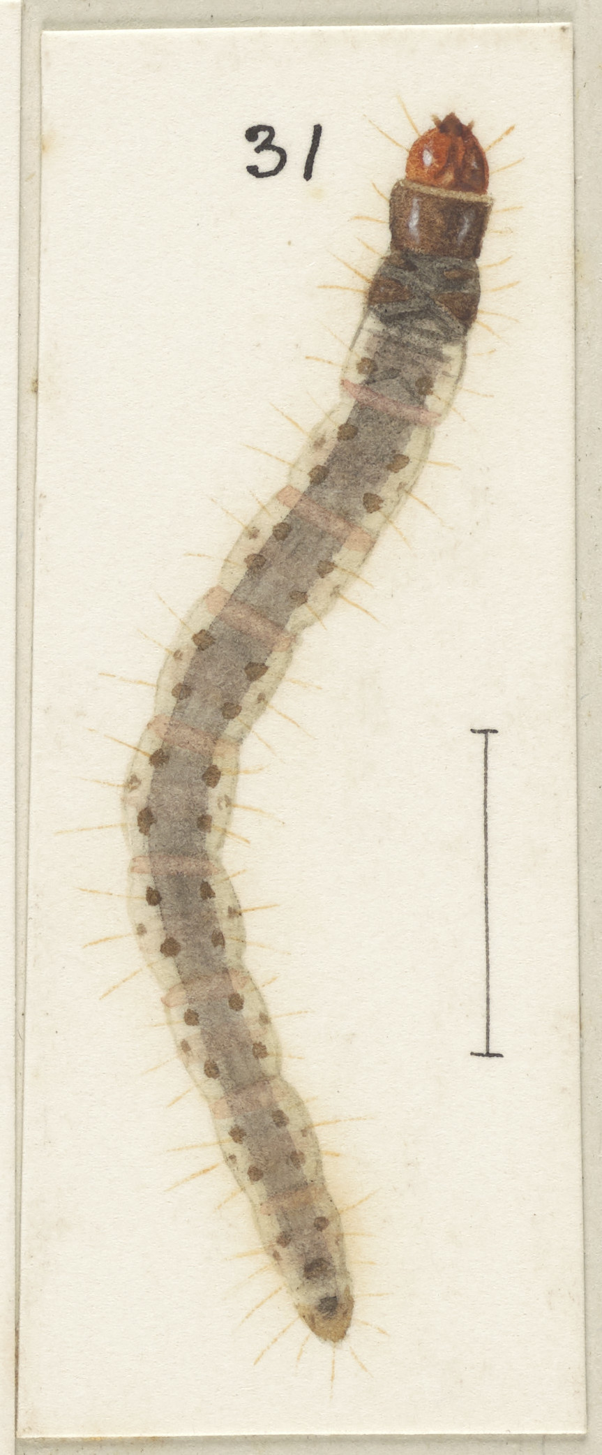 Watercolour by George Hudson. Plate III. Fig. 31. Izatha austera. The butterflies and moths of New Zealand.